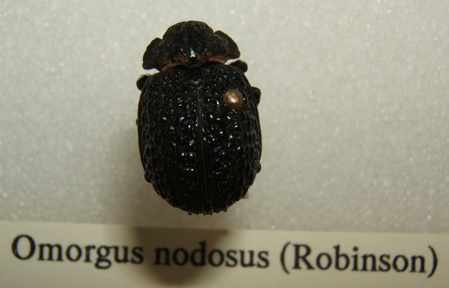 Omorgus nodosus adult taken by Shawn Hanrahan at the Texas A&M University Insect Collection in College Station, Texas.